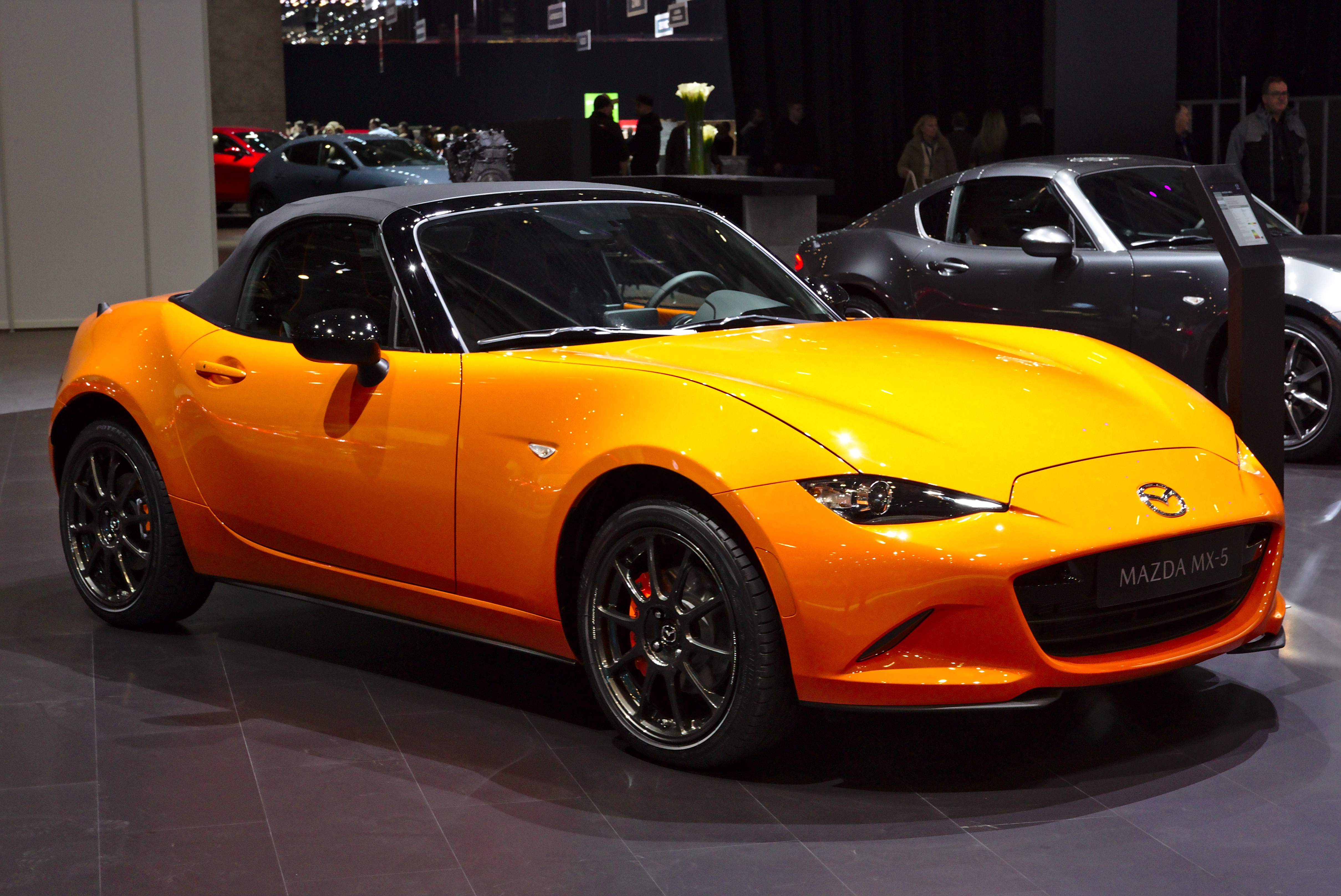 Mazda MX-5 30th Anniversary at Geneva Motor Show 2019